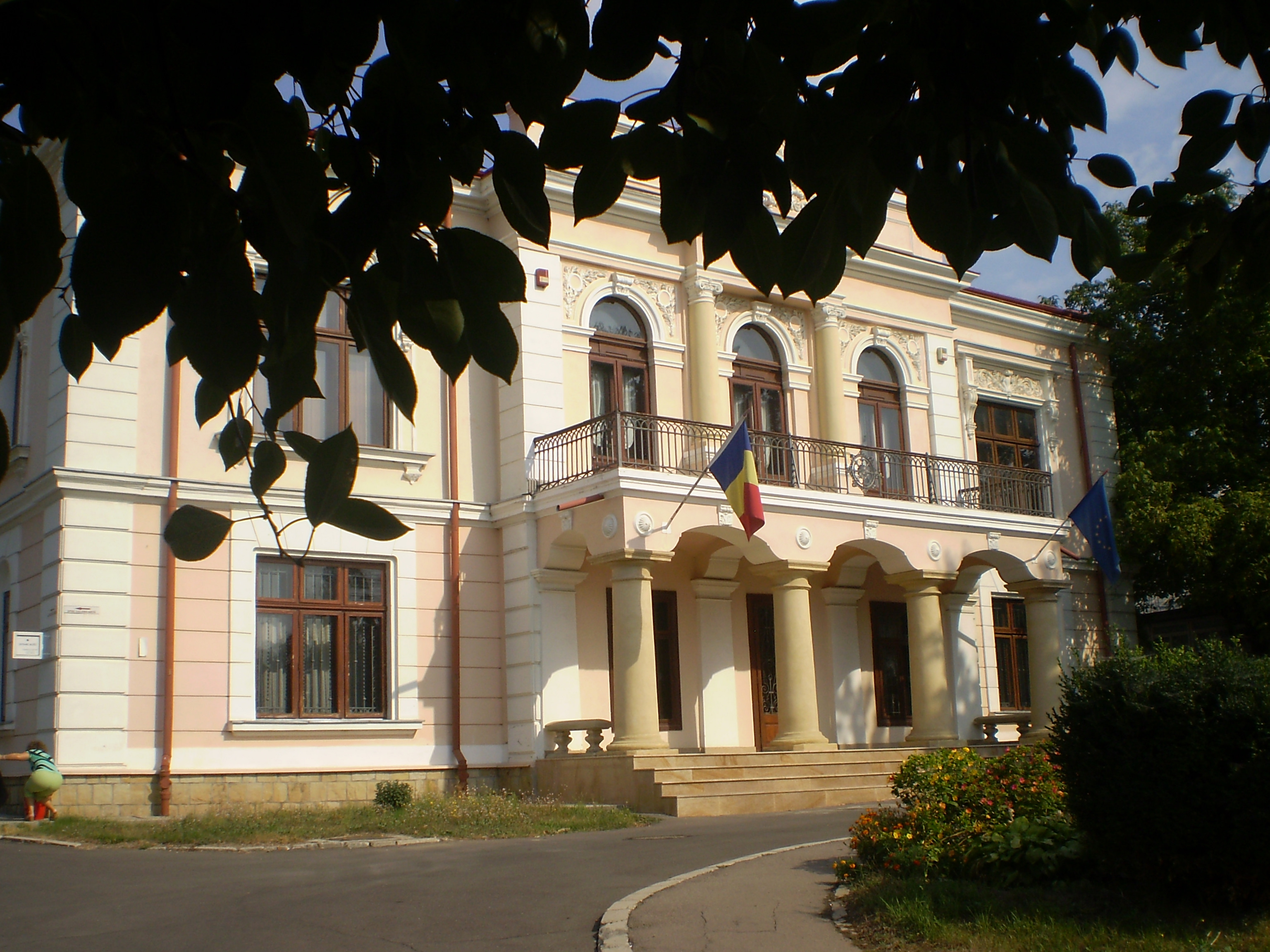 Romanian Literature Museum , Pogor House , Iaşi , Romania